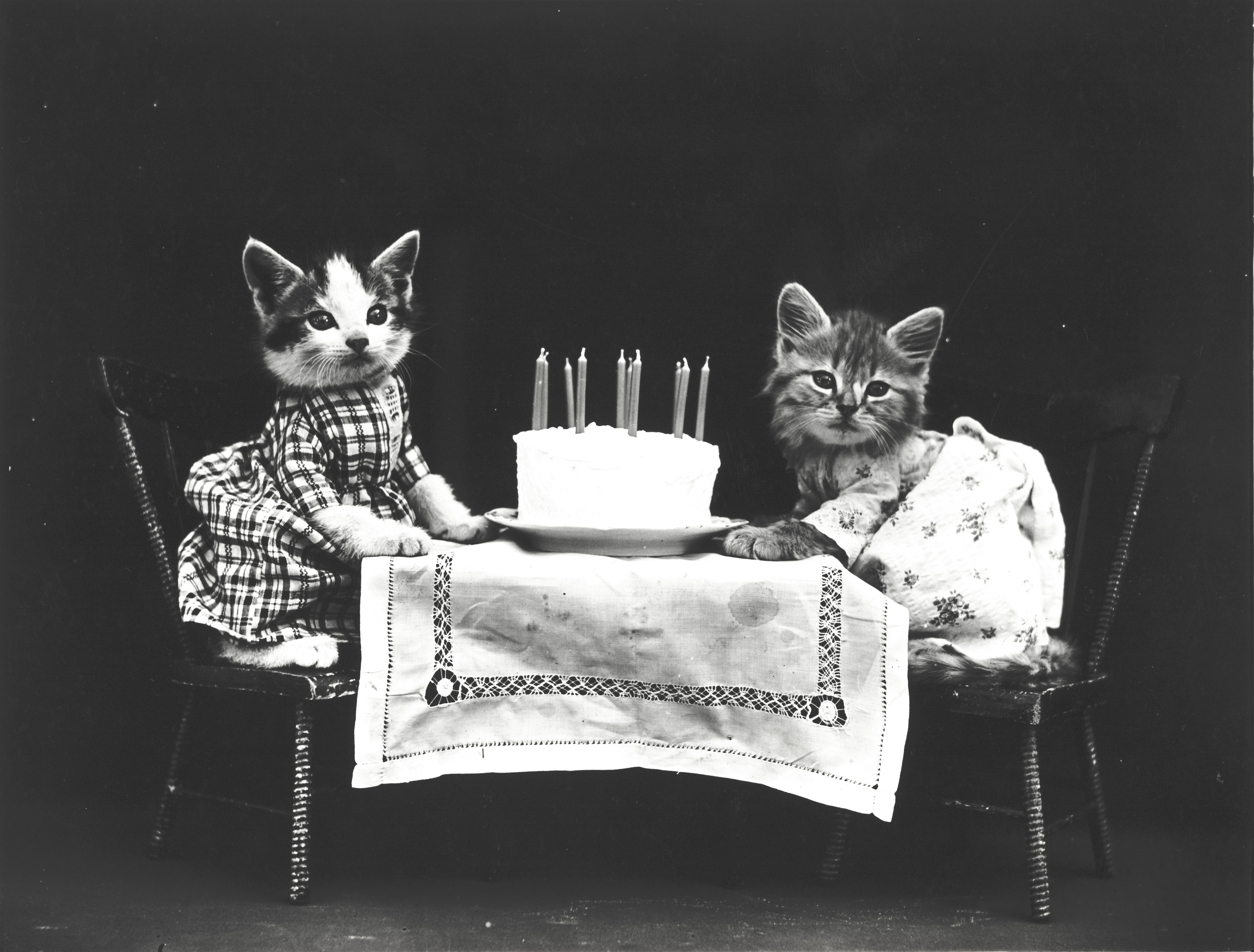 Photograph showing two kittens wearing dresses at a table with a birthday cake.